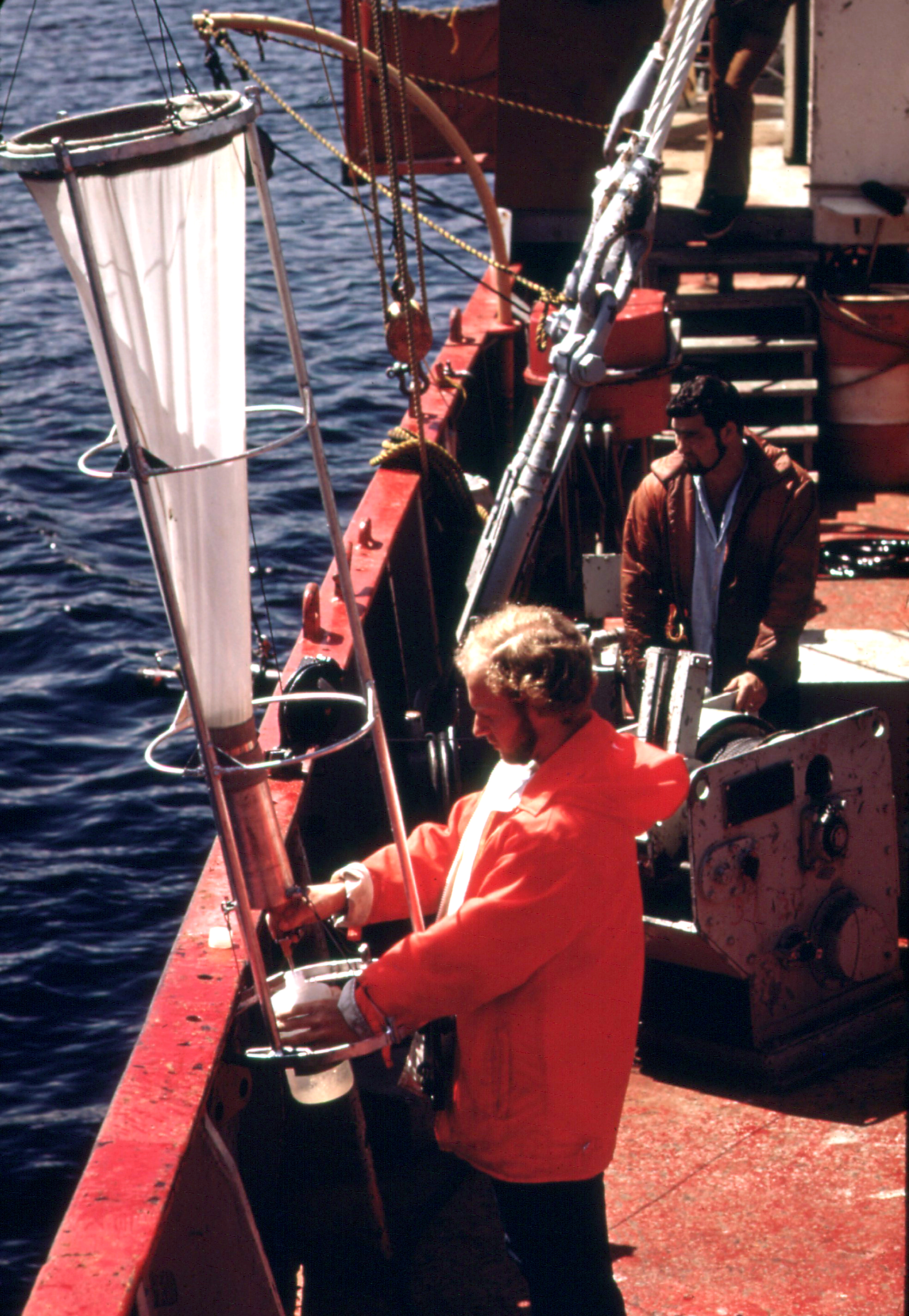 == THE "MARTIN KARLSEN," A CANADIAN SHIP, IS A FLOATING LABORATORY FROM WHICH SCIENTISTS ARE ANALYZING PHYSICAL, CHEMICAL BIOLOGICAL AND METEOROLOGICAL CONDITIONS IN LAKE SUPERIOR. SUCH COMPLETE STUDY OF FRESH WATER IS CALLED LIMNOLOGY. LIMNOLOGIST DRAINS CONTENTS OF PLANKTON NET INTO LABORATORY BOTTLE